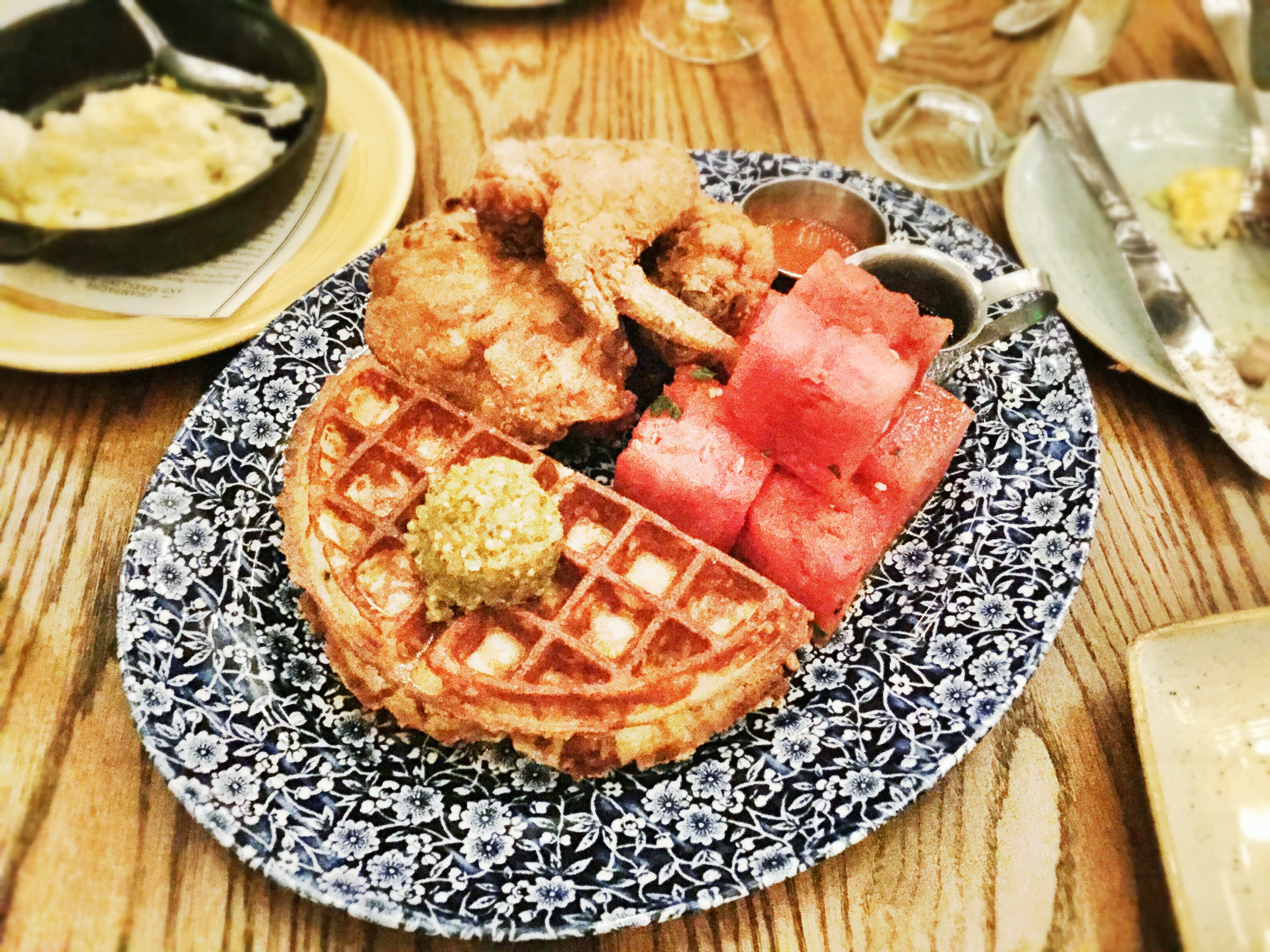 Fried chicken, waffles, and watermelon at Yardbird Southern Table & Bar, Las Vegas